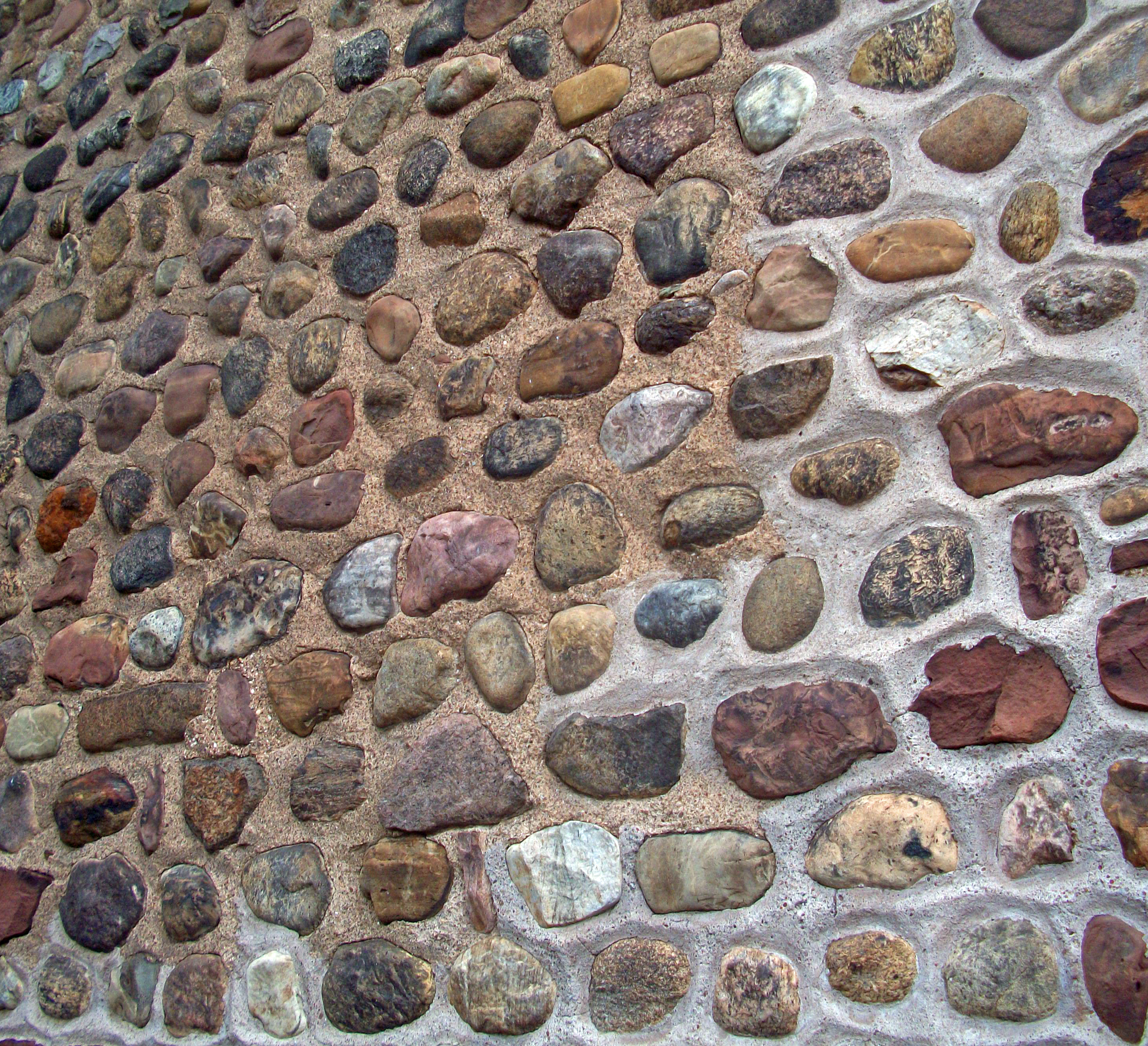 Detail of cobblestone wall detail on 1834 Universalist Church, one of three buildings in Cobblestone Historic District, Childs, NY, USA